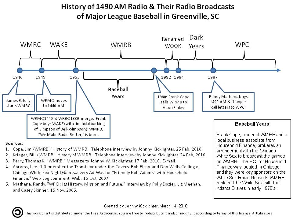 A graphic depicting the history of radio frequency 1490 AM, WMRB, in Greenville, SC, with an emphasis on its involvement with baseball broadcasting.